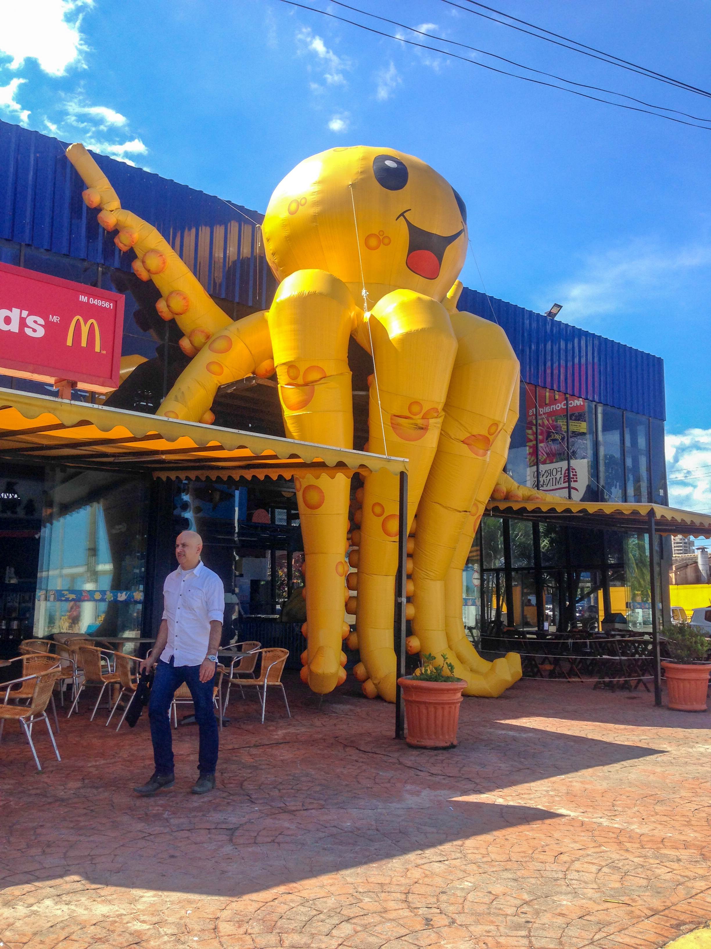 At Guaruja, Brazil